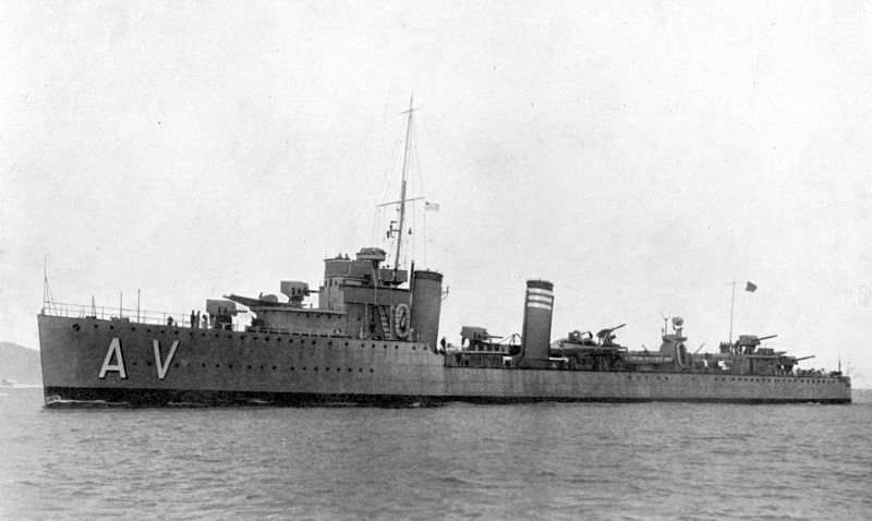 Destroyer Almirante Valdés (AV) or (VS), Churruca I class (1930)